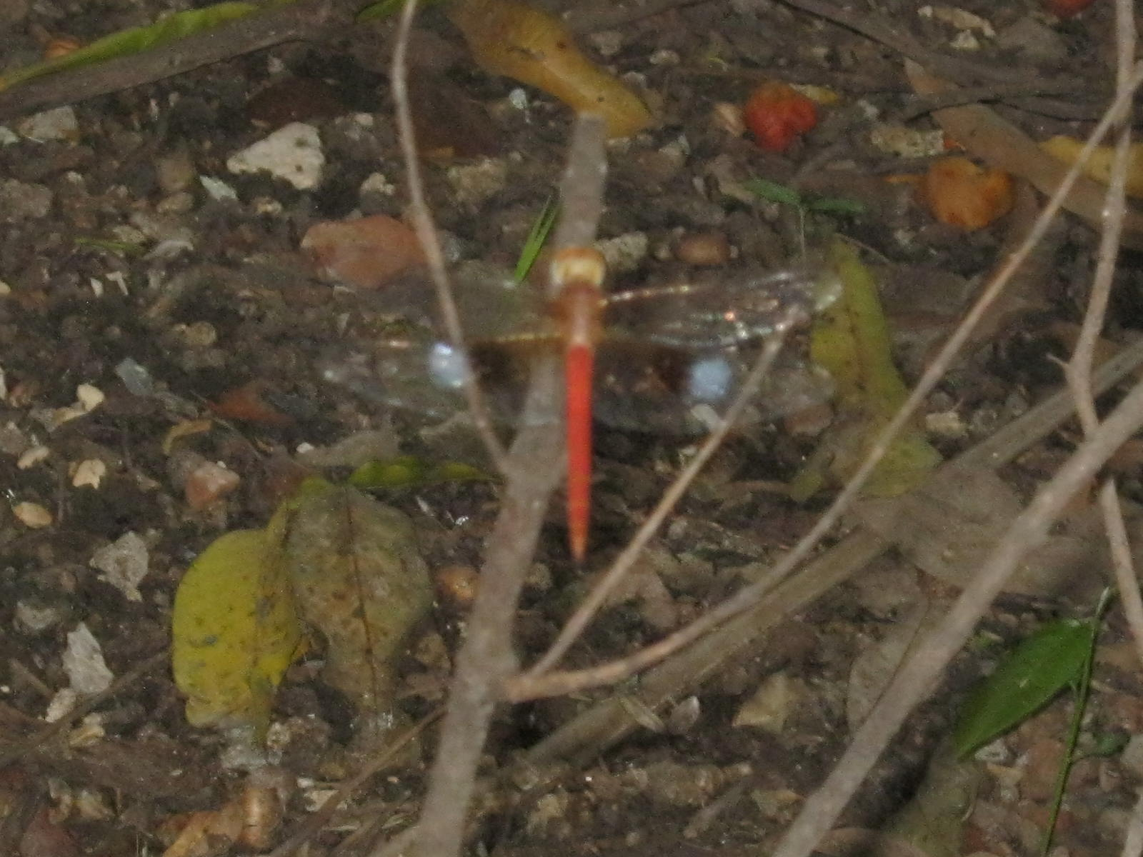 rare dragonfly